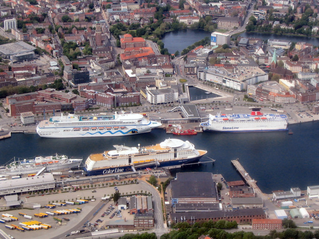 Aerial photo of ferries in Kiel's harbour (MS Color Fantasy, AIDAblu, Stena Germanica and MS Athena)